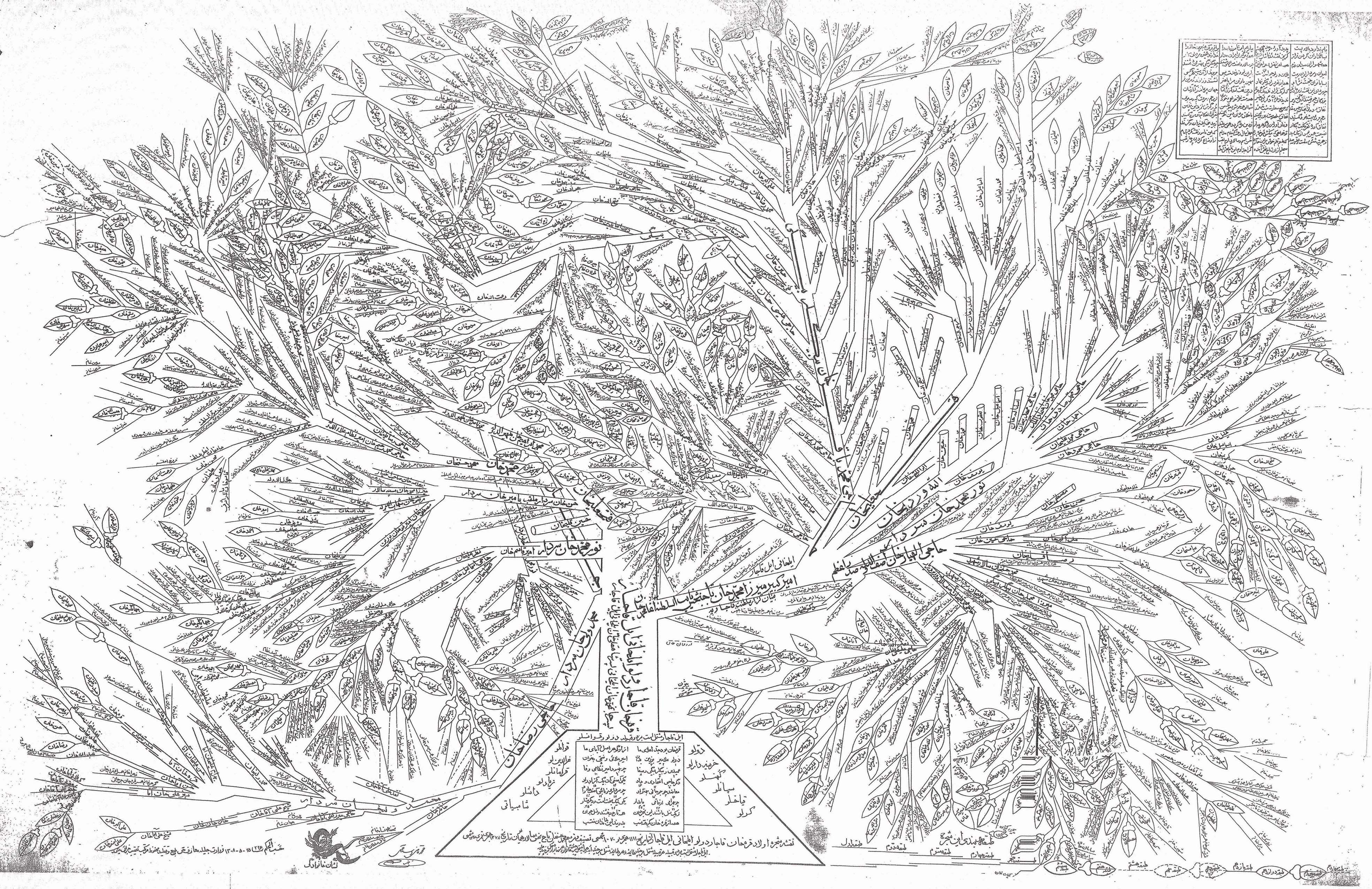 Tajbakhsh genealogy. Family tree